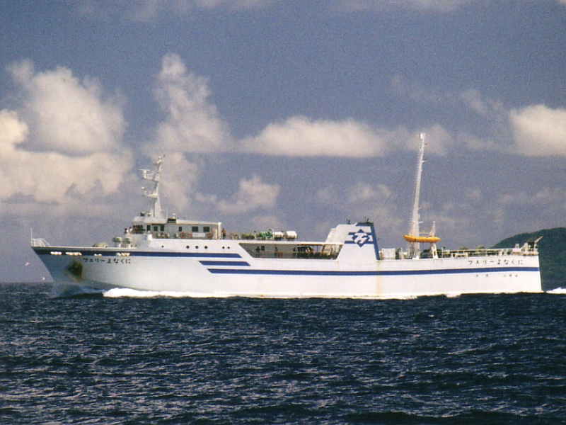 Ferry Yonakuni of Fukuyama Kaiun, off shore Taketomi Island